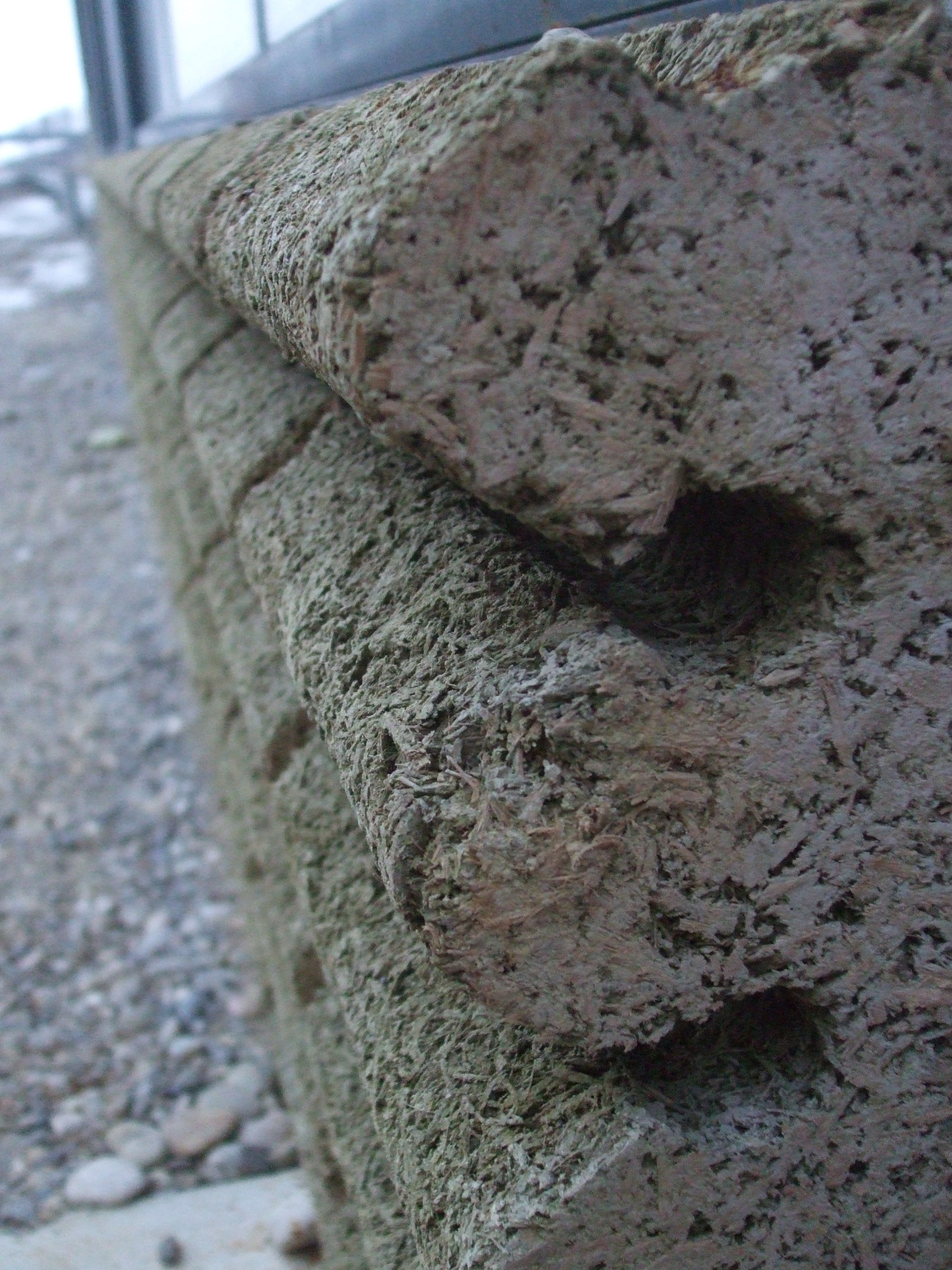 Building blocks of a highway noise walls at Landsberg am Lech, Bavaria, Germany (A 96)